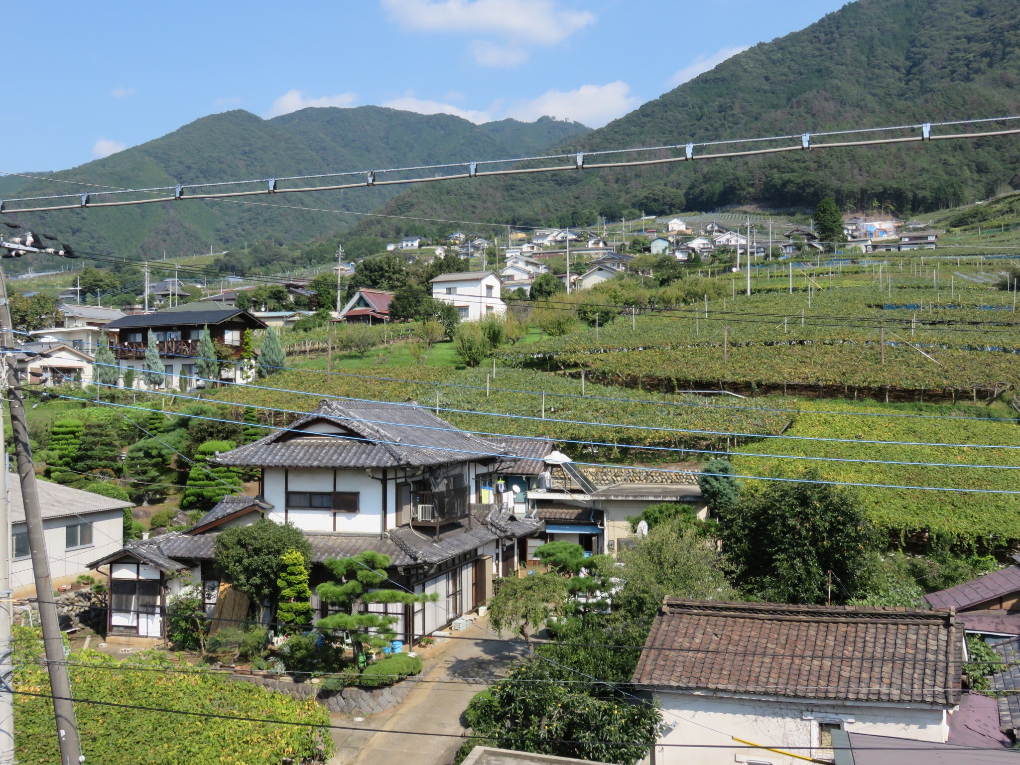 Katsunuma, Yamanashi